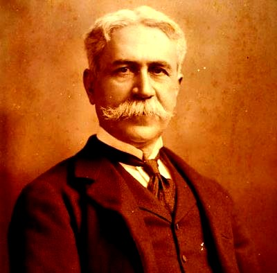 Joaquim Nabuco